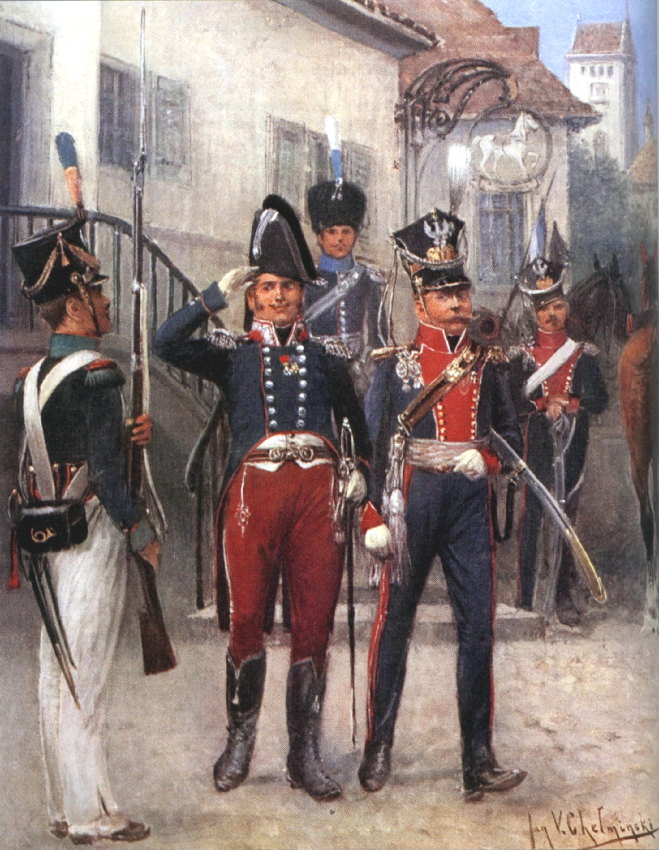 rigade general and colonel of 17th Uhlan Regiment